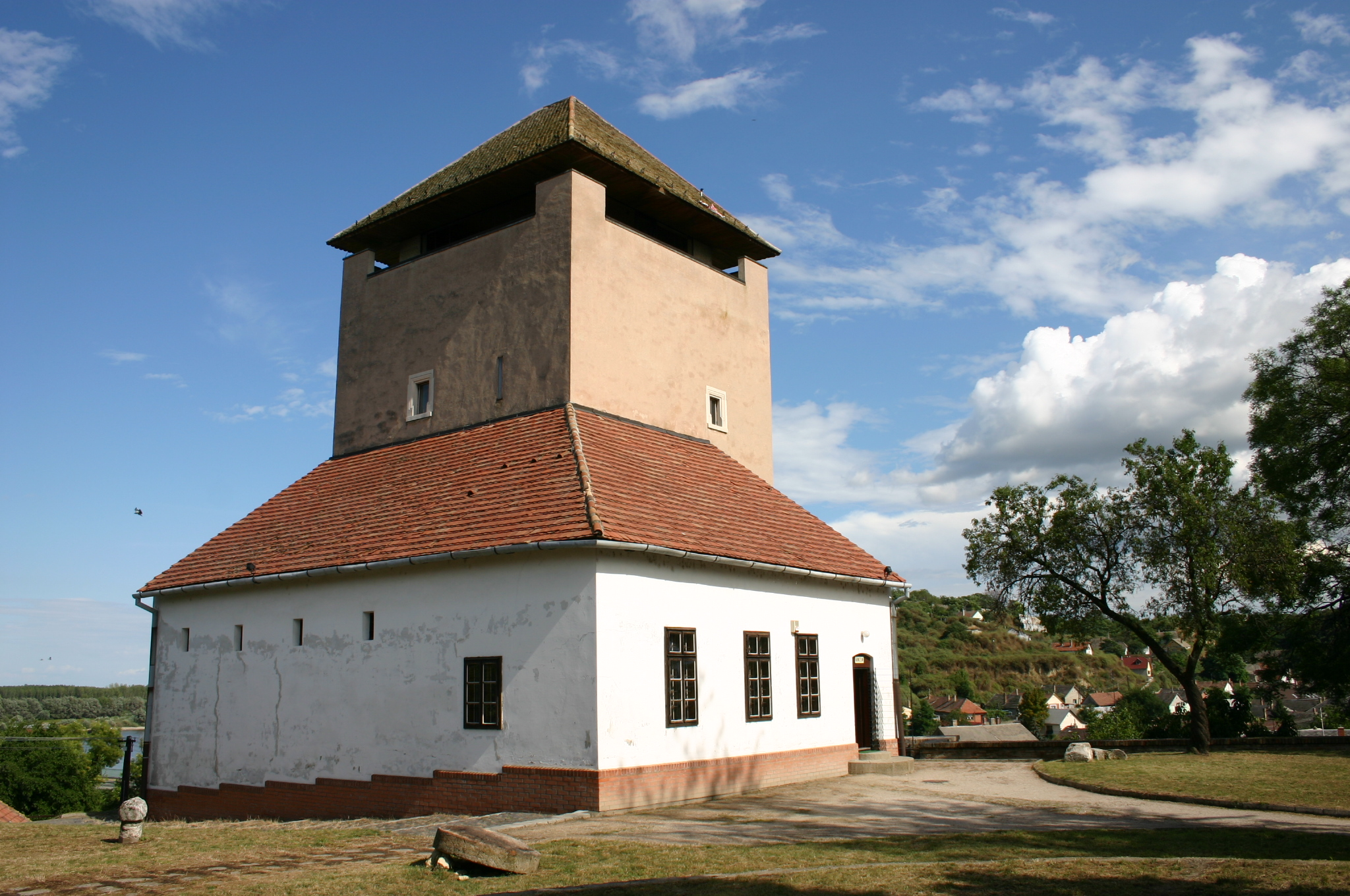 Castle of Dunafoldvar (Hungary) This is a photo of a monument in Hungary, Identifier: 8605